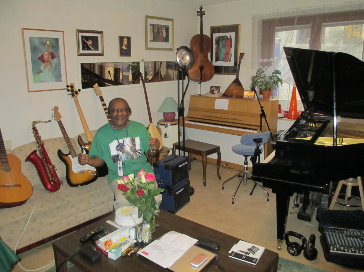 Colin Dyall on his 76th birthdayPlace: Colin Dyall residence, Stockholm, Sweden